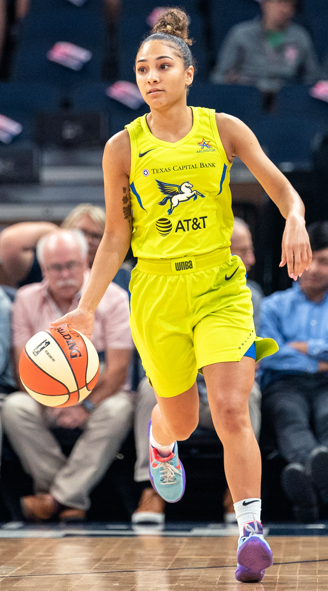 Dallas Wings player Brooke McCarty–Williams in a game against the Minnesota Lynx